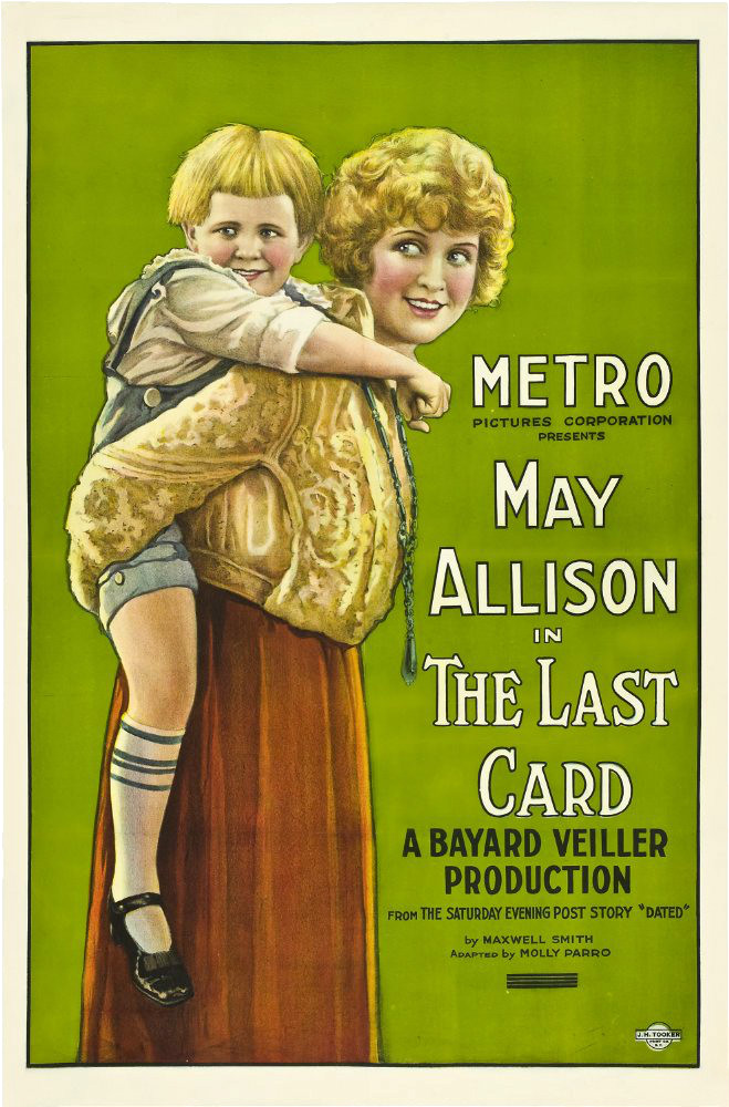 Poster for the 1921 film The Last Card